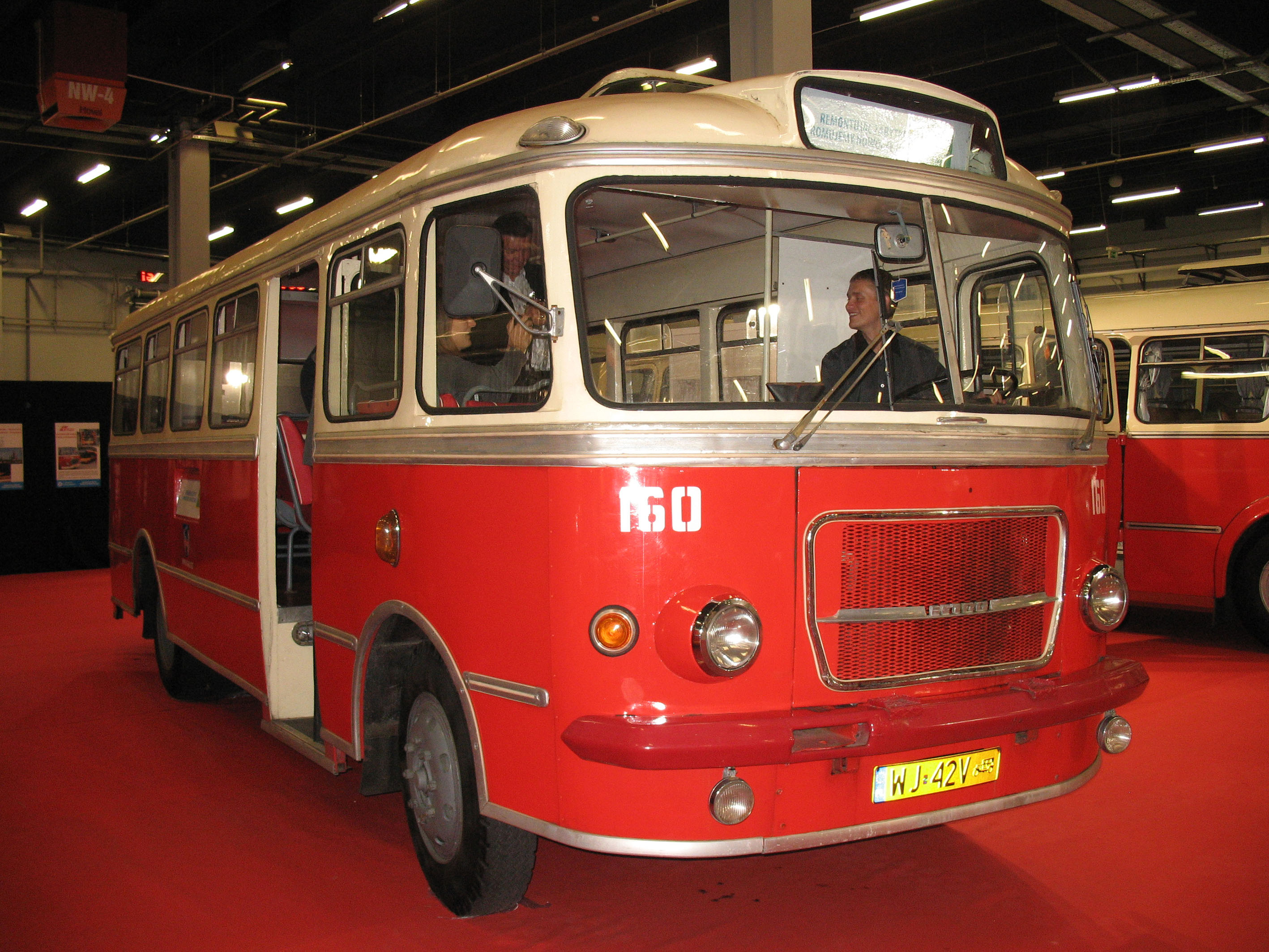 San H100B bus (#160) in Kielce, Poland. Built 1973, KMKM Warszawa operator. Transexpo 2011.